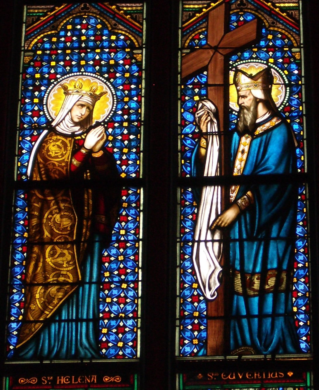 St Helene and St Euverte in the Holy cross cathedral at Orleans (stainglass)